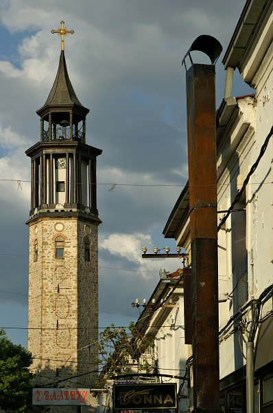 The Clock Tower in the Bazaar, Prilep